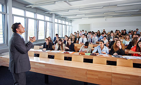 View of one of the small auditoriums